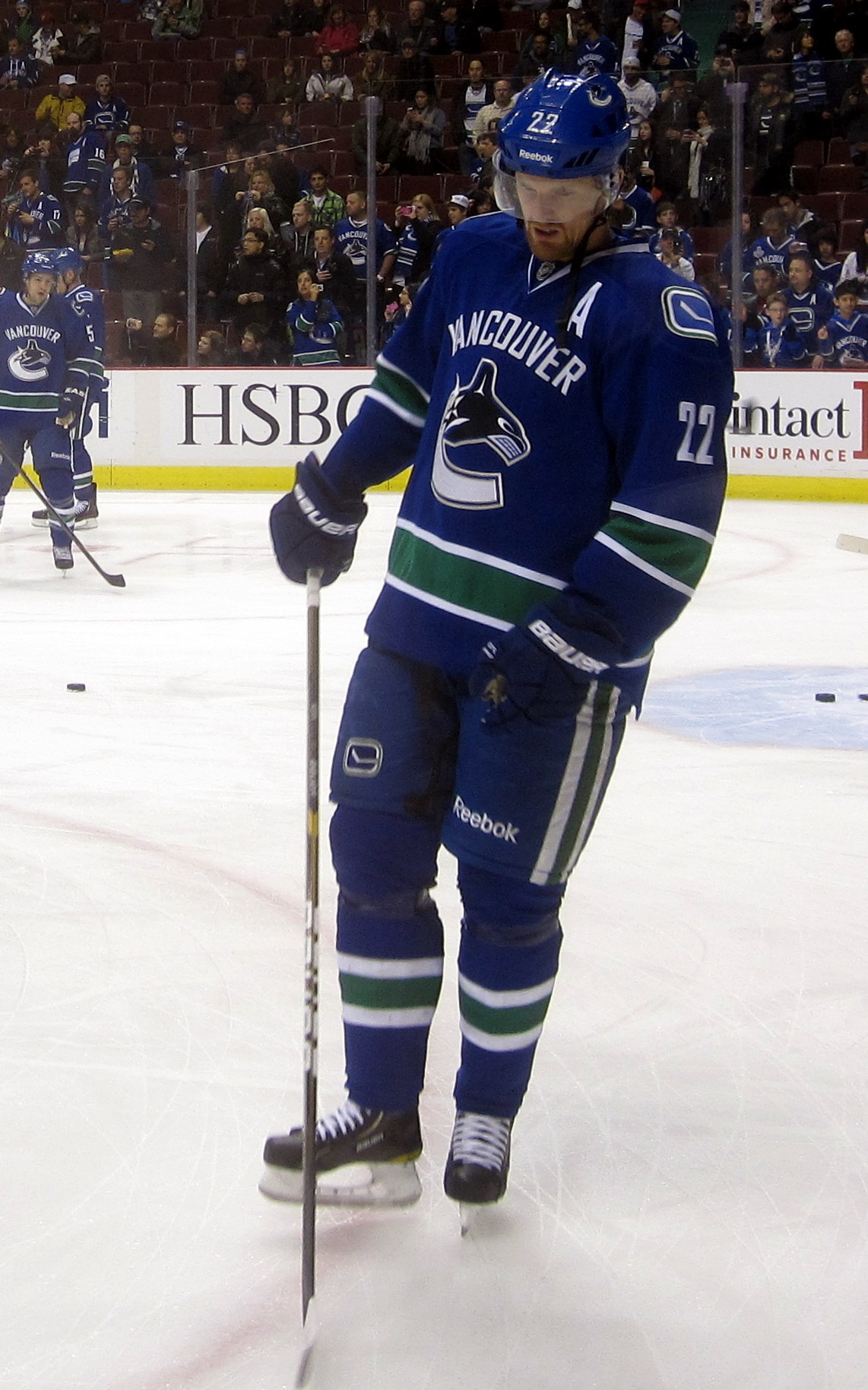 Vancouver Canucks forward Daniel Sedin during a pre-game warmup on March 14, 2012.